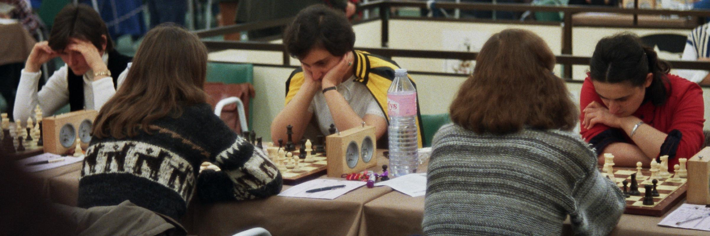 Semenova, Levitina and Chiburdanidze, Chess Olympiad 1984 in Thessaloniki, Photographer Gerhard Hund.